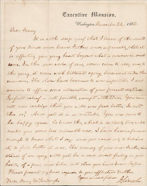 Letter of condolence from Abraham Lincoln to Fanny McCullough